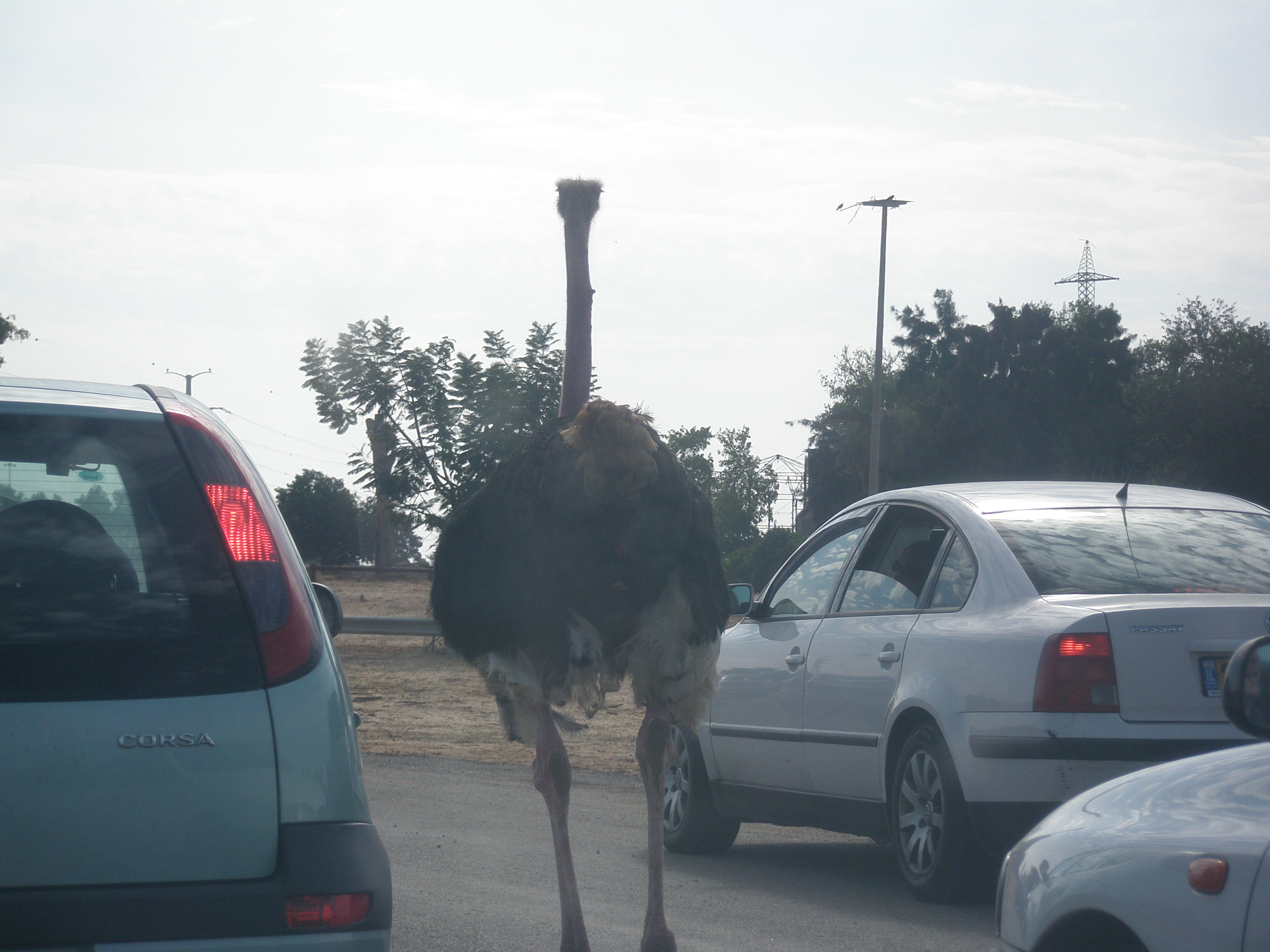 An ostrich walks confidently between visitors cars' at Zoological Center of Tel Aviv-Ramat Gan